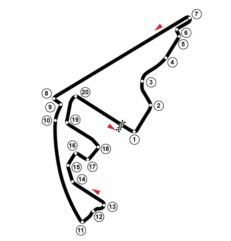 Circuit Yas Island